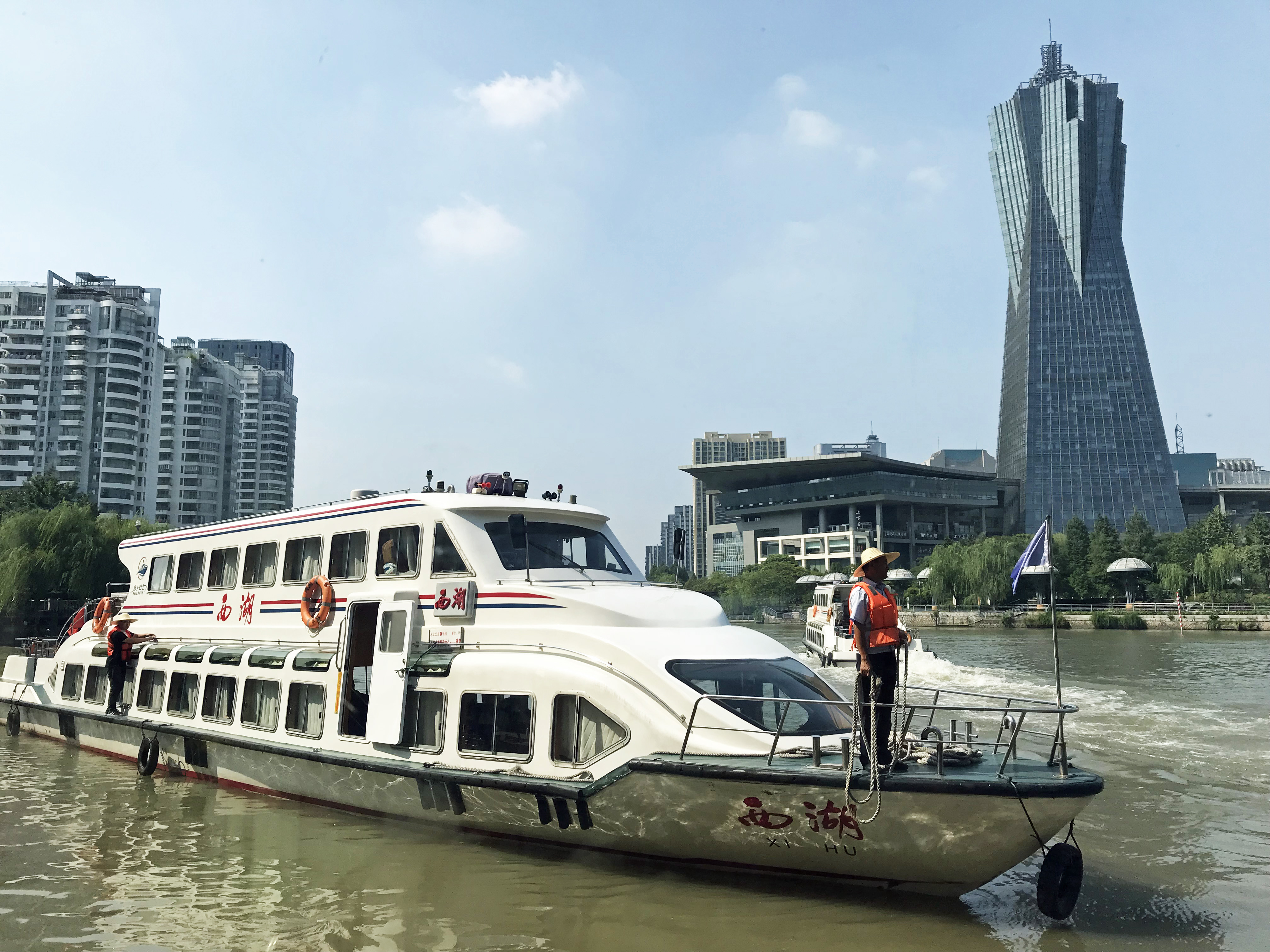 Fahrt im Wassertaxi oder Wasserbus auf dem Kaiserkanal in Hangzhou. It´s very famous to use the waterbus in Hangzhou, Grand Canal. You're welcome to use this picture free of charge, as long as you follow the license terms. As a matter of courtesy a link (dofollow links are welcome!) to is much appreciated. Thank you! ————————–—–—–—–—–—–—–—–—–—–—–—–—–—–—– Du kannst dieses Bild gemäß der Lizenzbestimmungen unentgeltlich nutzen. Über eine Verlinkung (dofollow am liebsten) auf freuen wir uns. Danke!